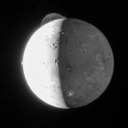 Tvashtar volcano on Io taken by the LORRI camera of the New Horizons probe on February 28, 2007. 290-kilometer (180-mile) high plume from the volcano Tvashtar, in the 11 o'clock direction near Io's north pole.